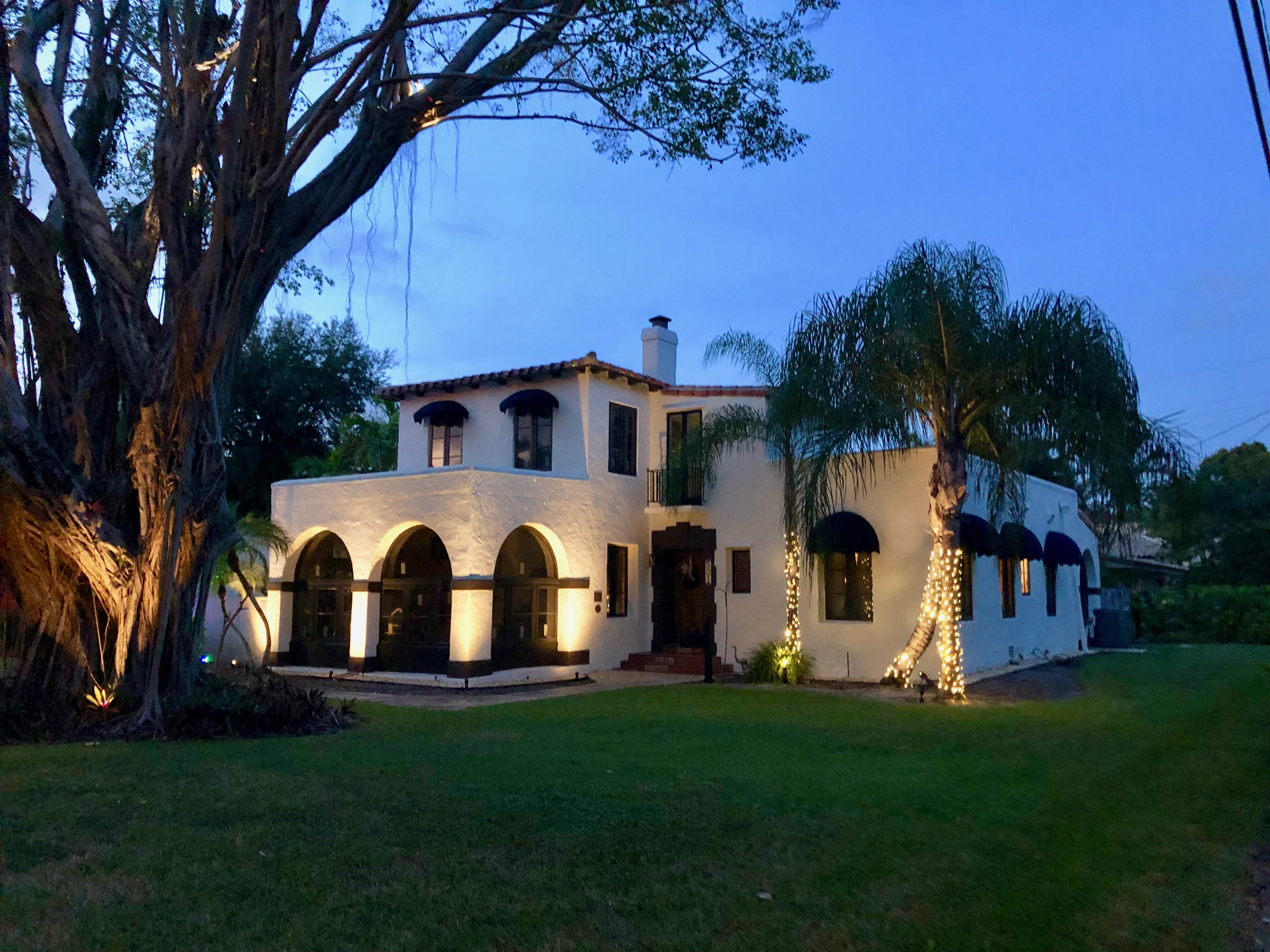 Fred Aiken House, designed by Architect Addison Mizner and built in 1926